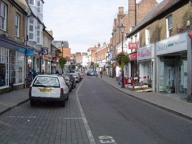 Rickmansworth Original description: Rickmansworth: High Street A view looking westwards on a Sunday morning.